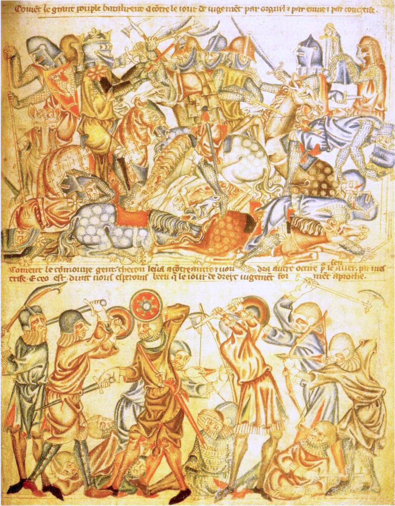 A depiction of the Battle of Bannockburn from the Holkham Bible, 1327-35.